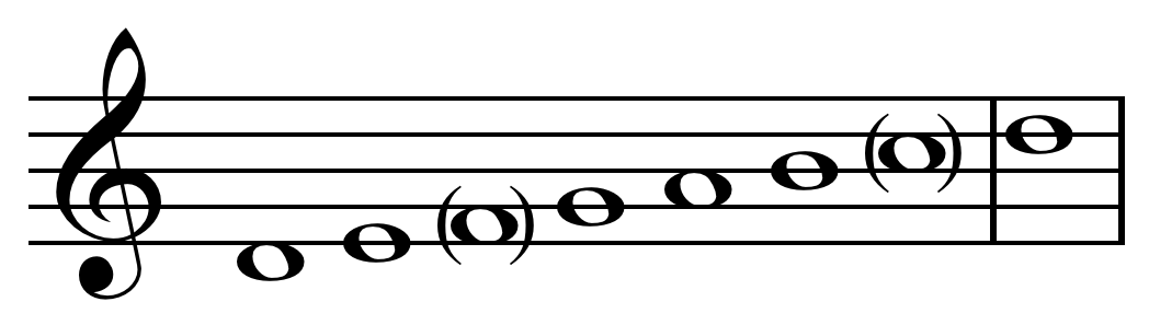 Yo scale on D with auxiliary tones in parentheses. Created by Ds13, pieced together from source GFDL artwork (C_major_scale.PNG)